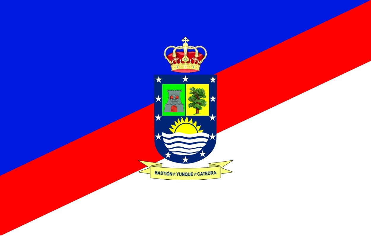 Bandera Departamental Concepción